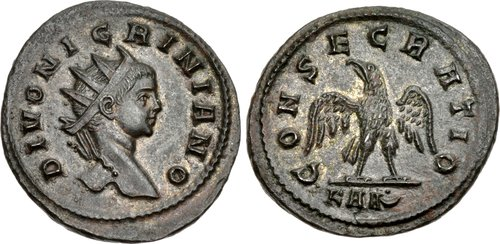 Divus Nigrinianus. Died circa AD 284. Antoninianus (22mm, 3.58 g, 11h). Rome mint, 1st officina. 6th emission of Carinus, early AD 285. DIVO NIGRINIANO, radiate head right / CONSECRATIO, eagle standing facing, head left, with wings spread; KAA (pellet above crescent). RIC V 472 var. (mintmark). From the Ronald J. Hansen Collection.